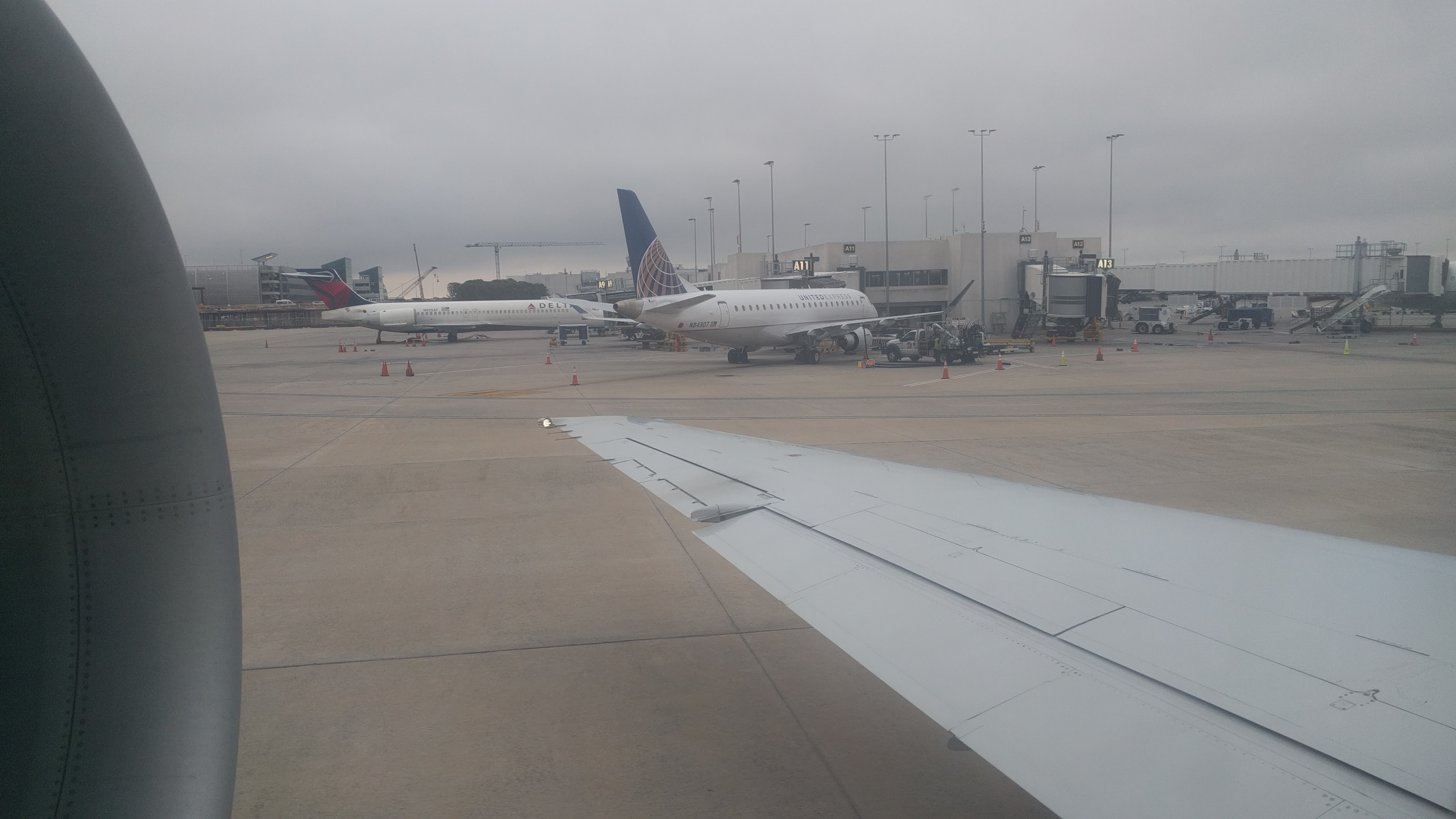 A Delta 717 leaving Charlotte's Concourse A.